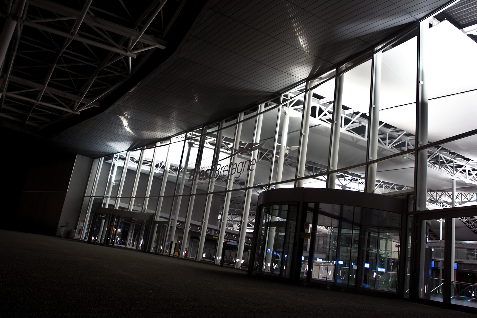 Looking at the front of new terminal, Brest (Finistère), France.